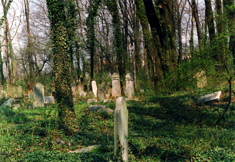 Old Jewish Cemetery in Cieszyn